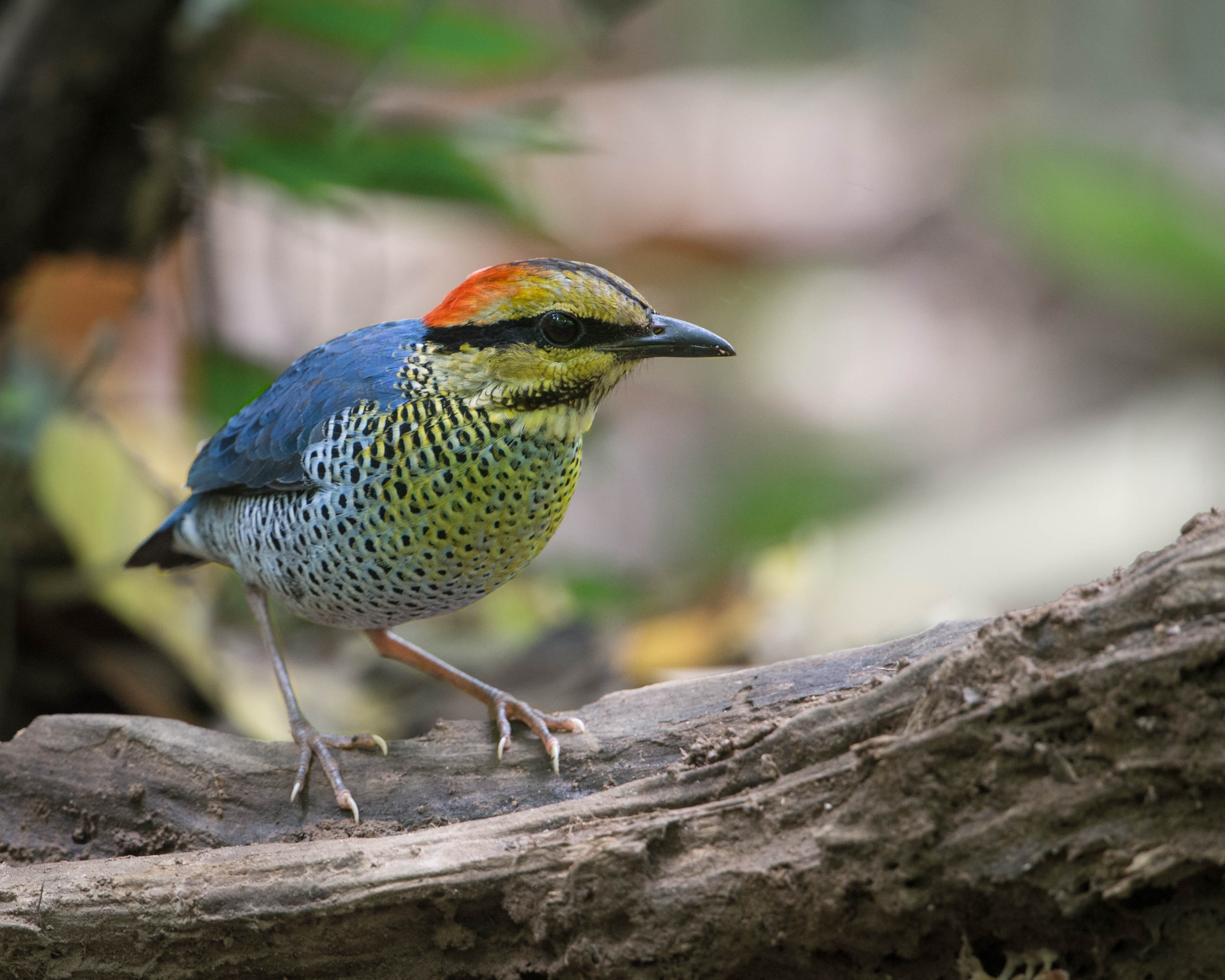 Blue Pitta (Pitta cyanea) at Kaeng Krachan National Park, Phetchaburi, Thailand. 15 July 2013